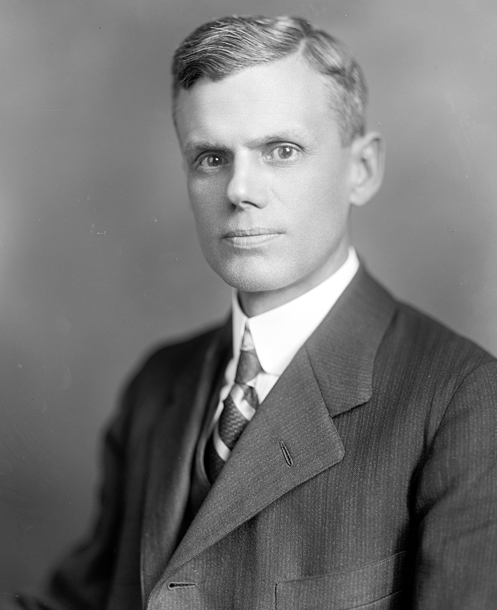 William L. Nelson, US Representative from Missouri